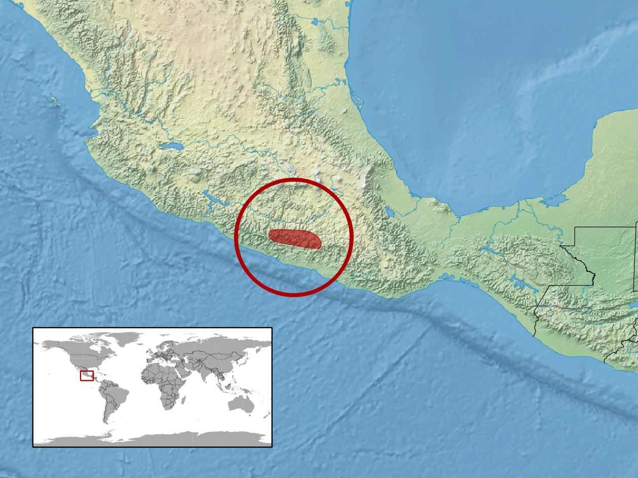 geographic distribution of Plestiodon ochoterenae